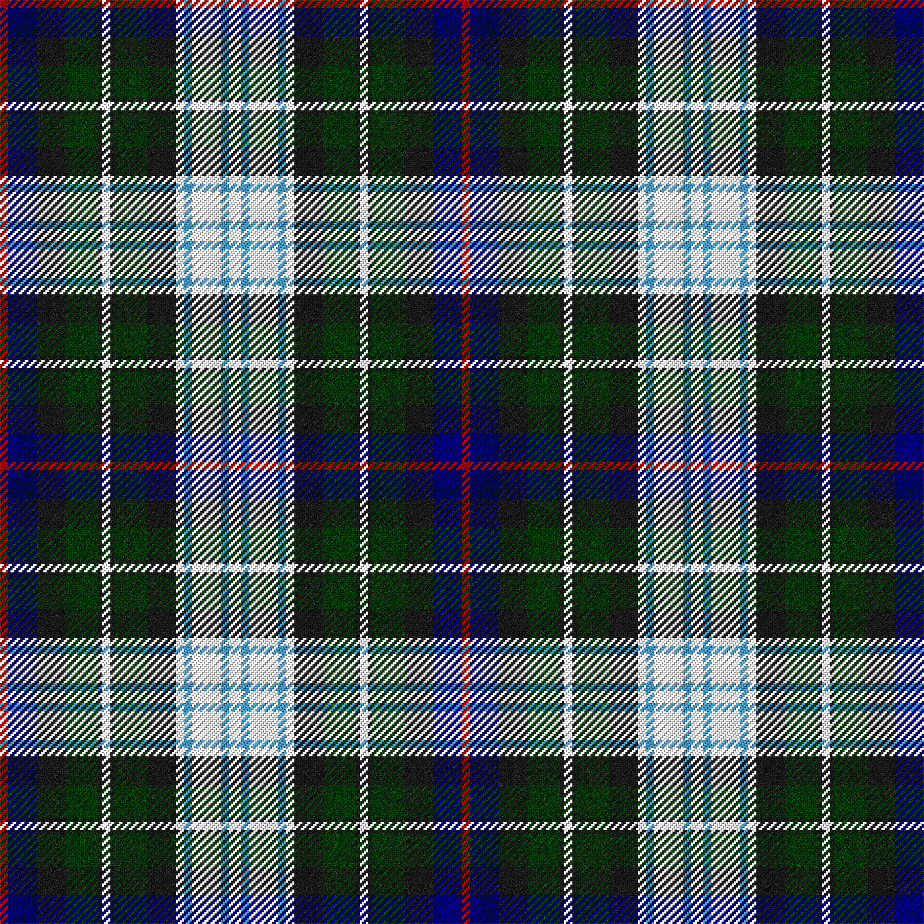 A representation of the Mackenzie dress tartan.